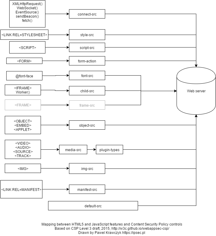 Mapping between HTML5 and JavaScript features and Content Security Policy controls. Based on CSP Level 3 draft, 2015